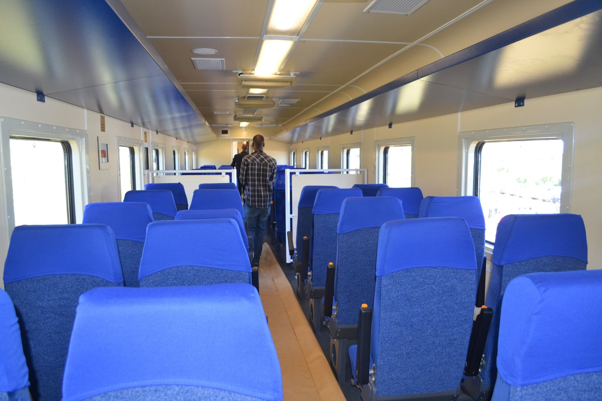 The new comfortable chairs of BR Express